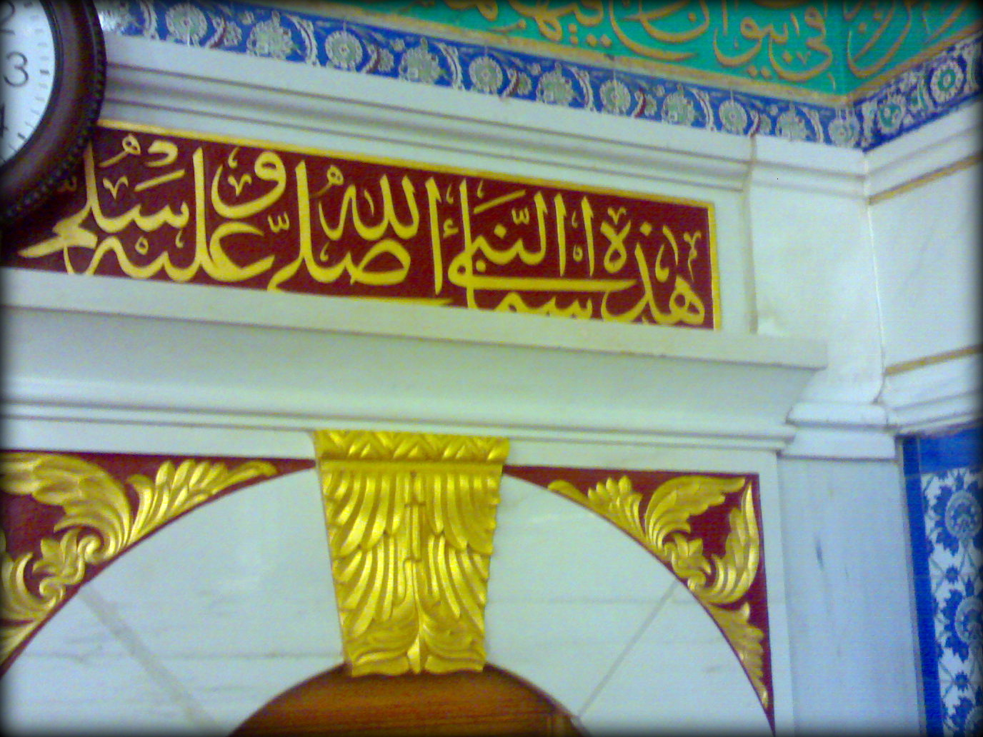 Prophet Mohammad names written inside Al-Masjid Al-Nabawi